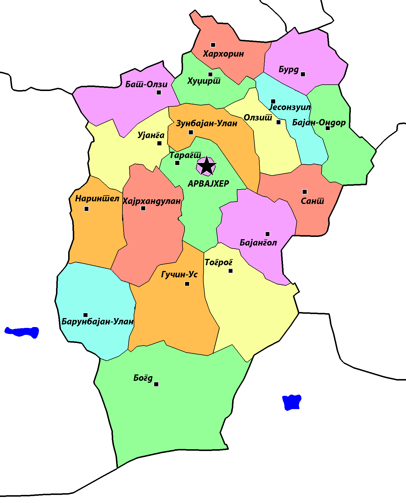 Translated map of Ovorkhangai Sum into Macedonian language